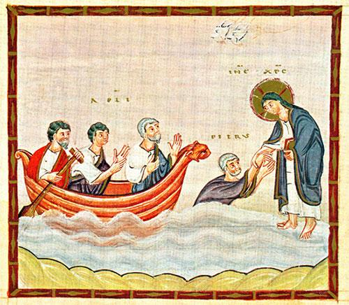 Walk on the water